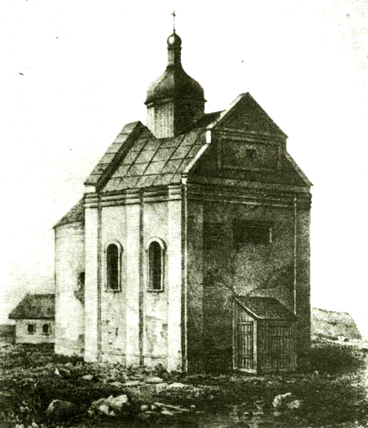 Intercession of the Theotokos church in Lutsk